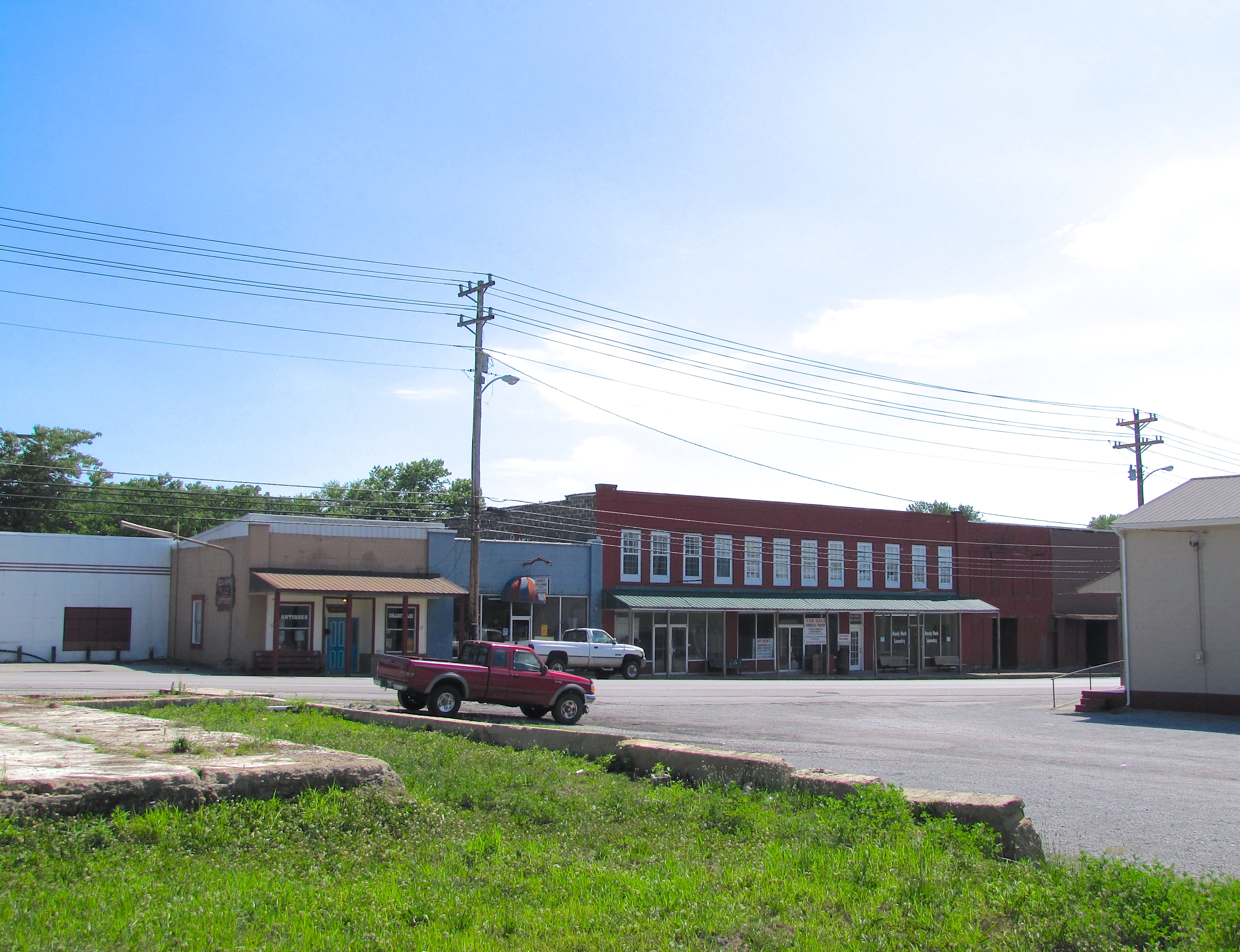 Buildings along Lake Avenue in Celina, Tennessee, United States, looking southwest.